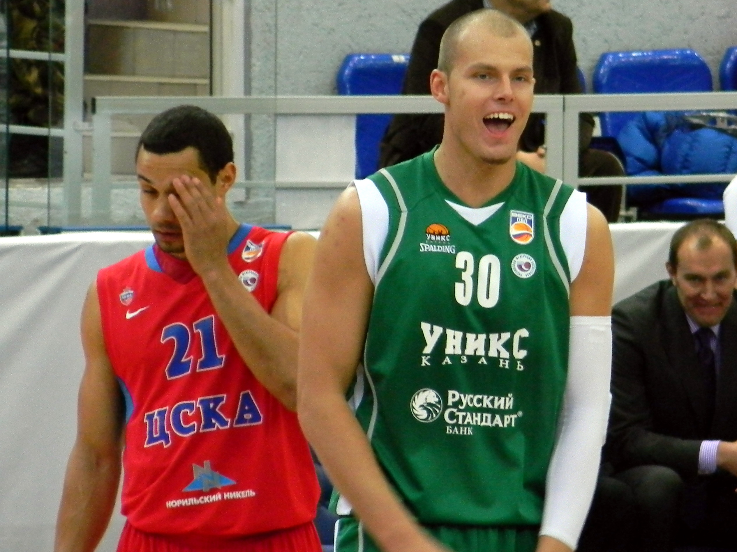 Trajan Langdon and Maciej Lampe at all-star PBL game 2011